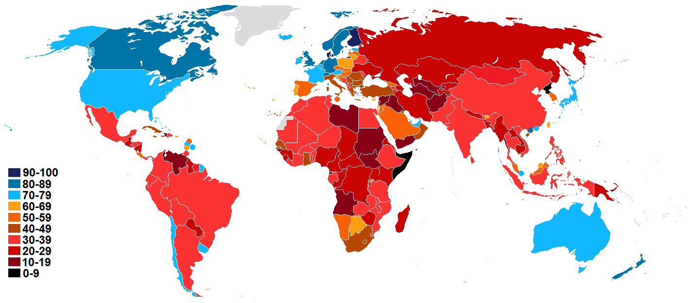 A world map of the 2015 Corruption Perceptions Index by Transparency International which measures "the degree to which corruption is perceived to exist among public officials and politicians". Low numbers (blue) indicate less perception of corruption, whereas higher numbers (red) indicate higher perception of corruption.